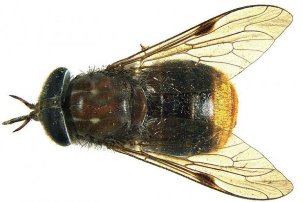 Photo of Scaptia beyonceae, a species of horse fly found in the Atherton Tablelands in north-east Queensland, Australia.